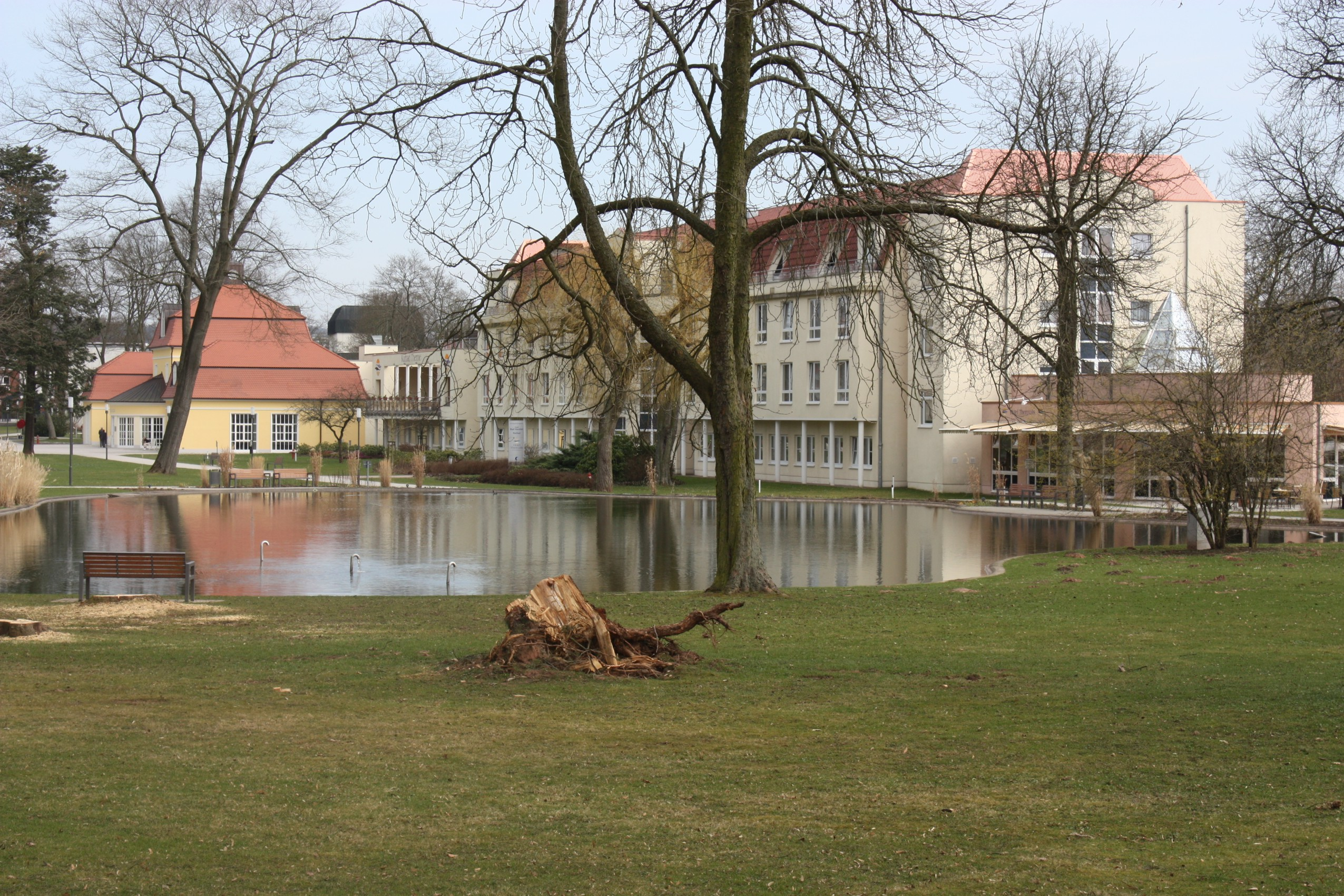 Bad Hersfeld, view across the pond to Thermalis and to the Kurhaus